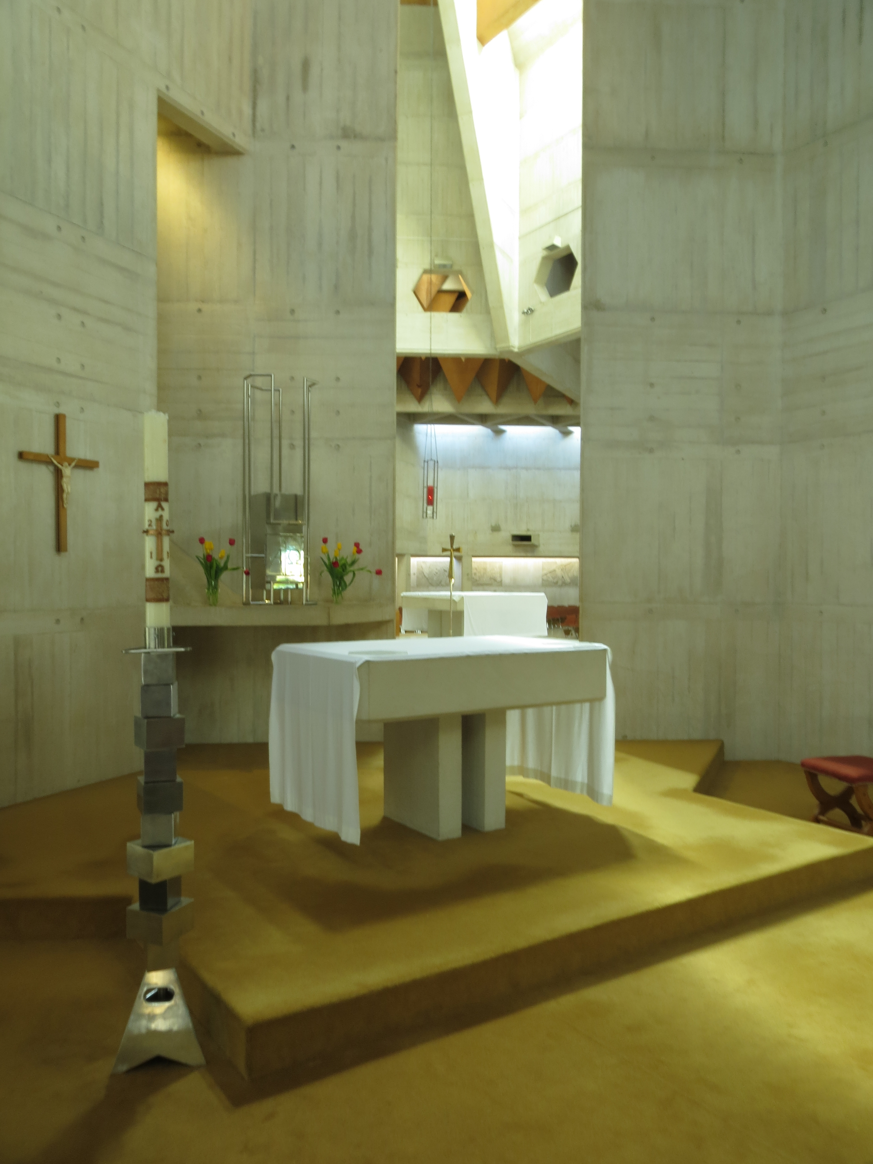 Clifton Cathedral, Clifton Park, Bristol BS8 3BX